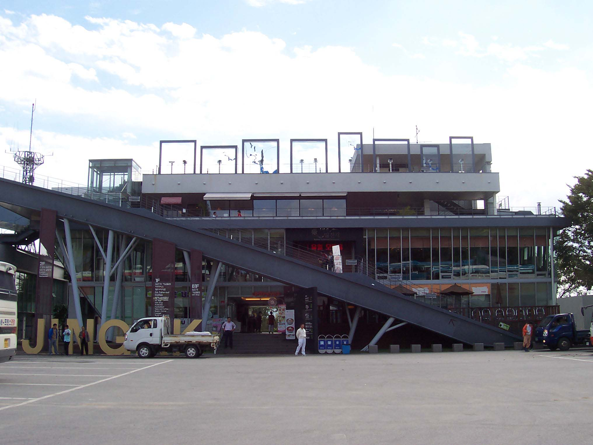 Imjingak